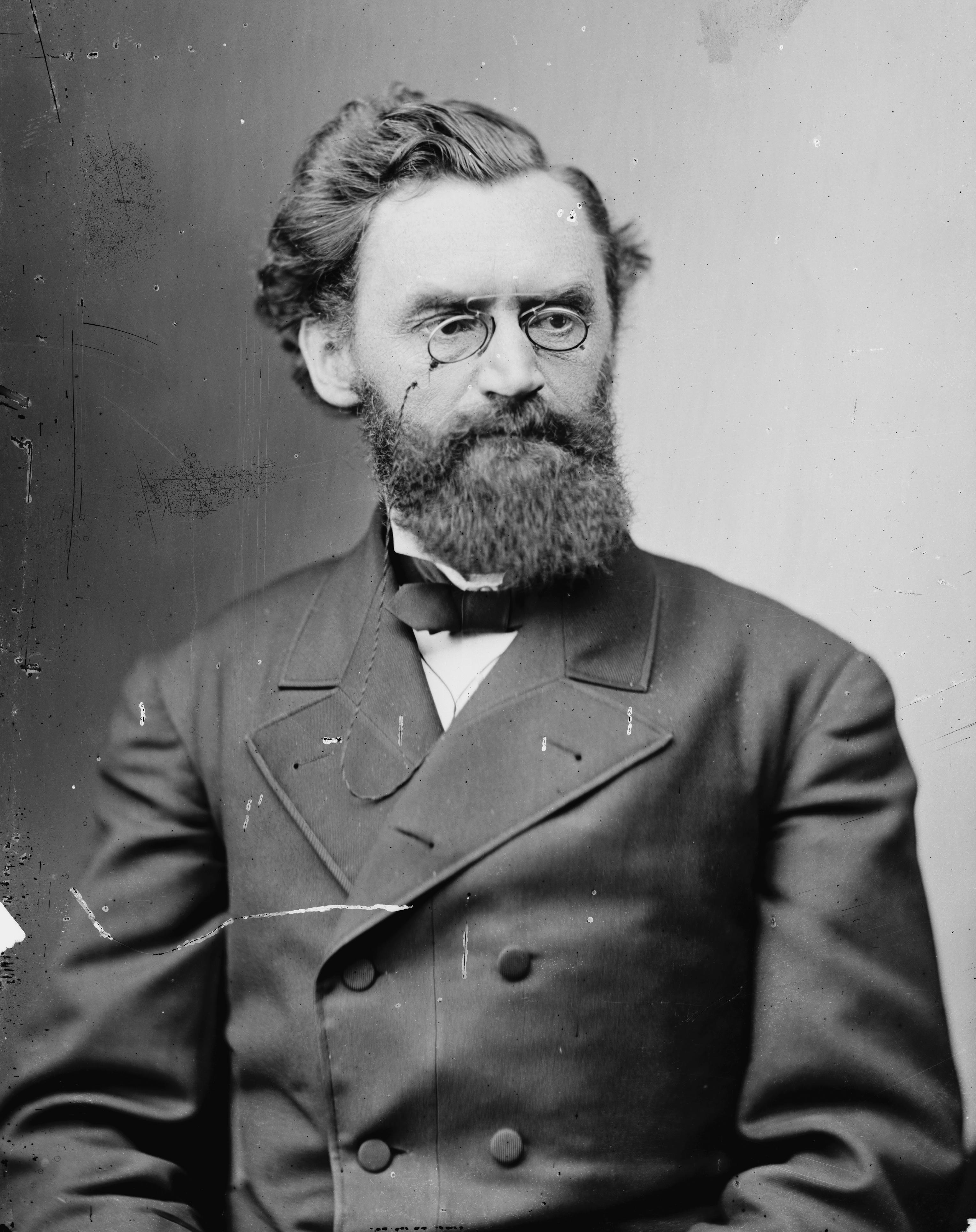 Carl Schurz. Library of Congress description: "Schurz, Hon. Carl".